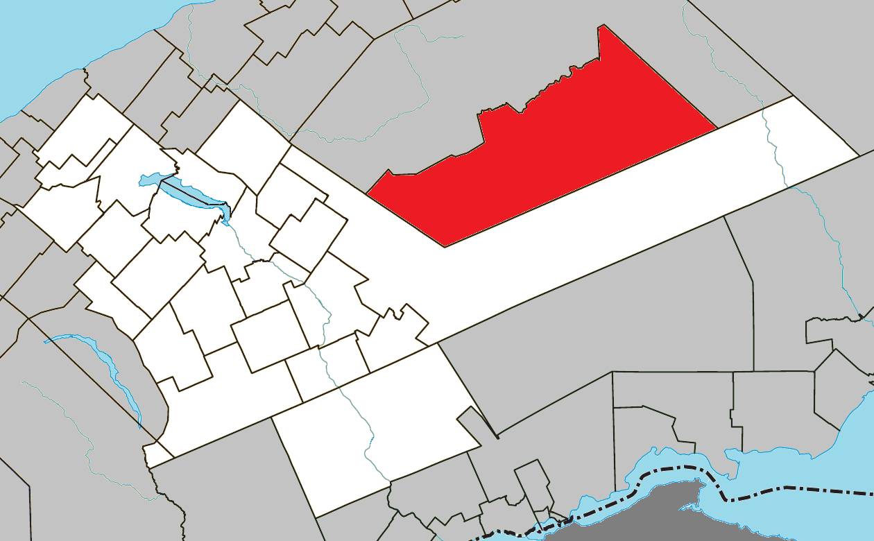 Location of Ruisseau-des-Mineurs, Quebec within La Matapédia Regional County Municipality.